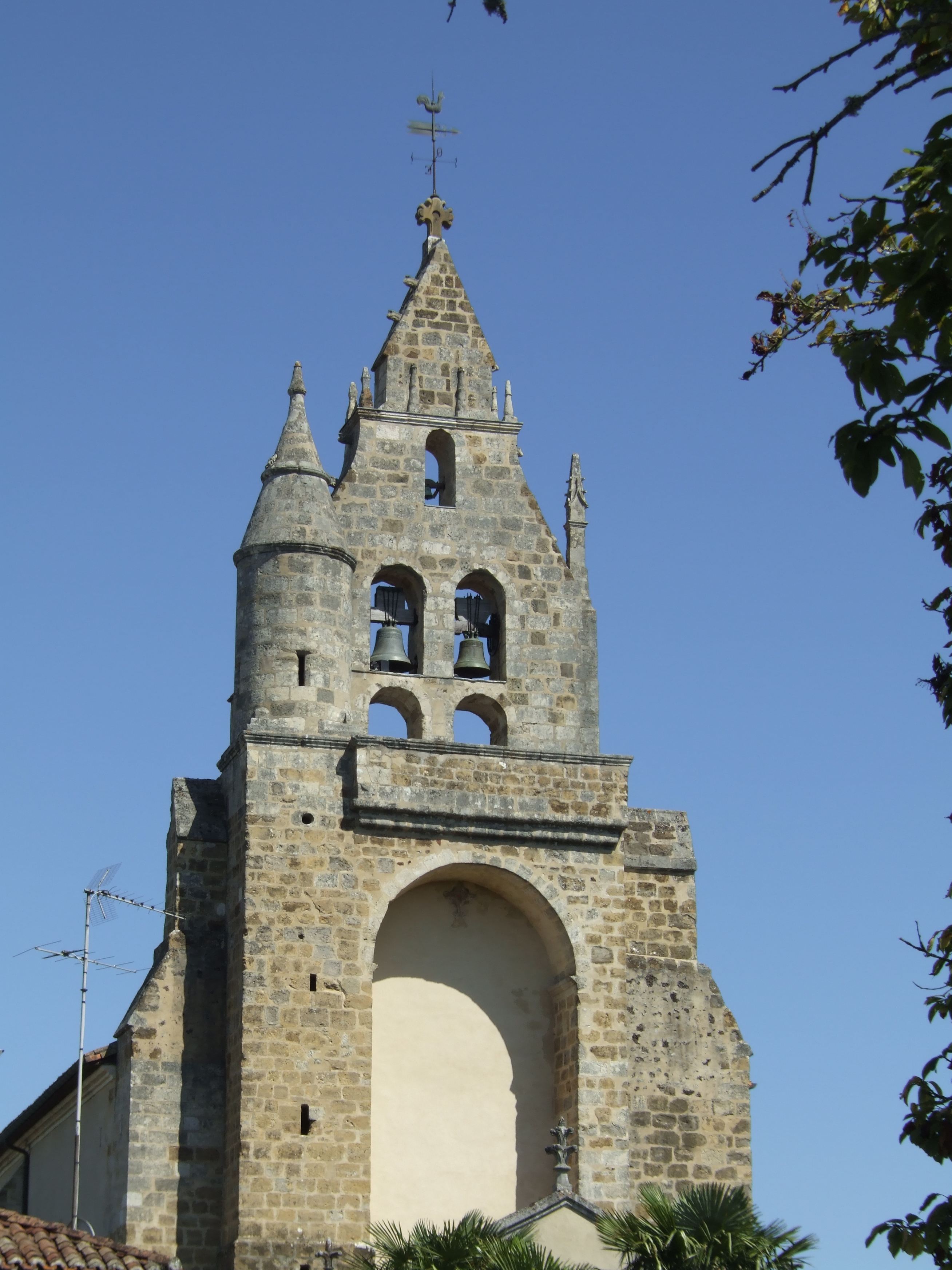 Bell tower of the benedictine church of Sabres (Landes - France)